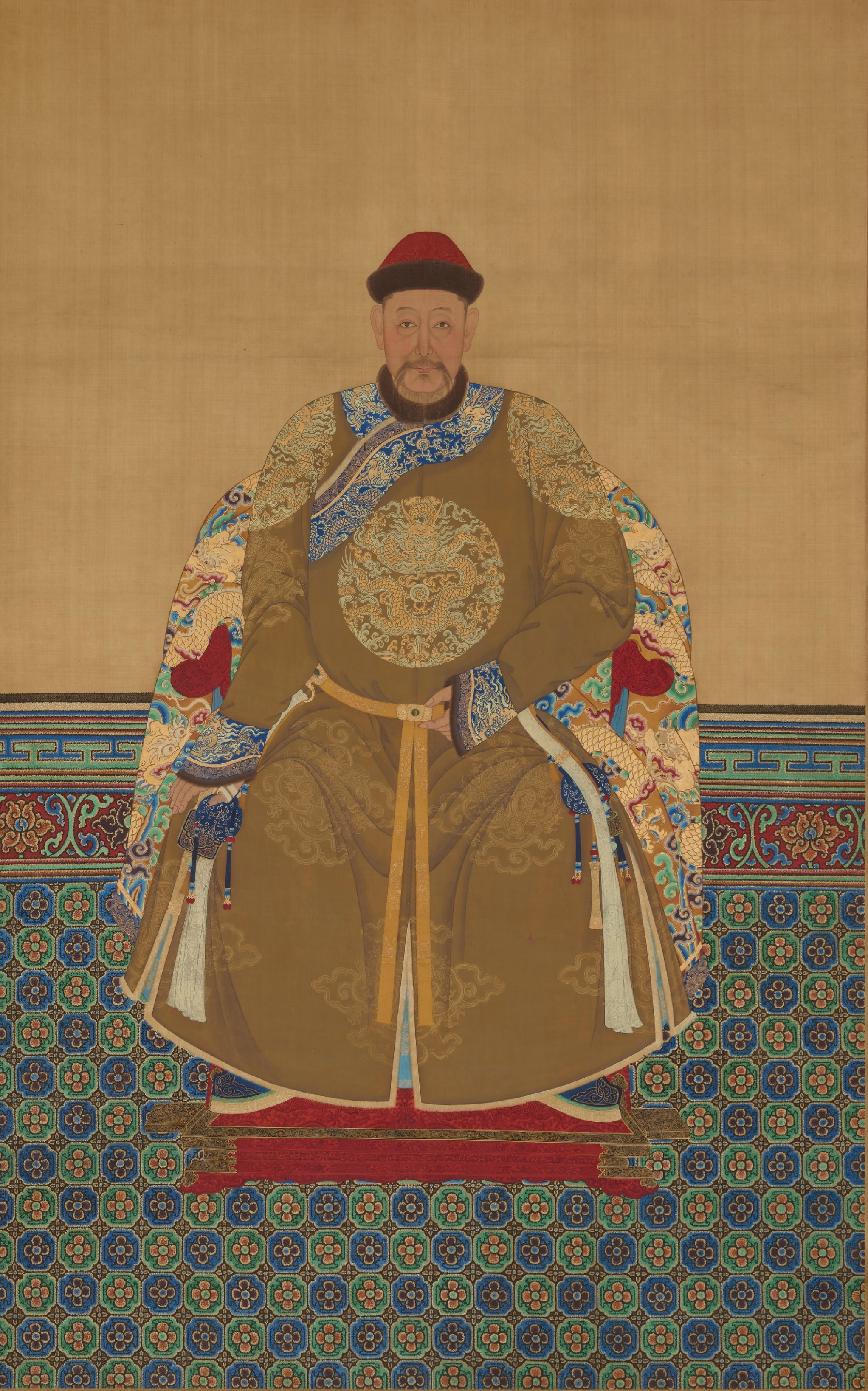 Portrait of DaiShan